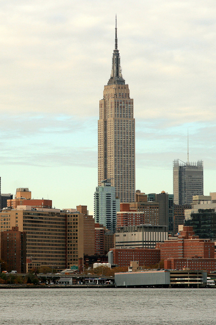 The Empire State Building as seen from Brooklyn, New York City.